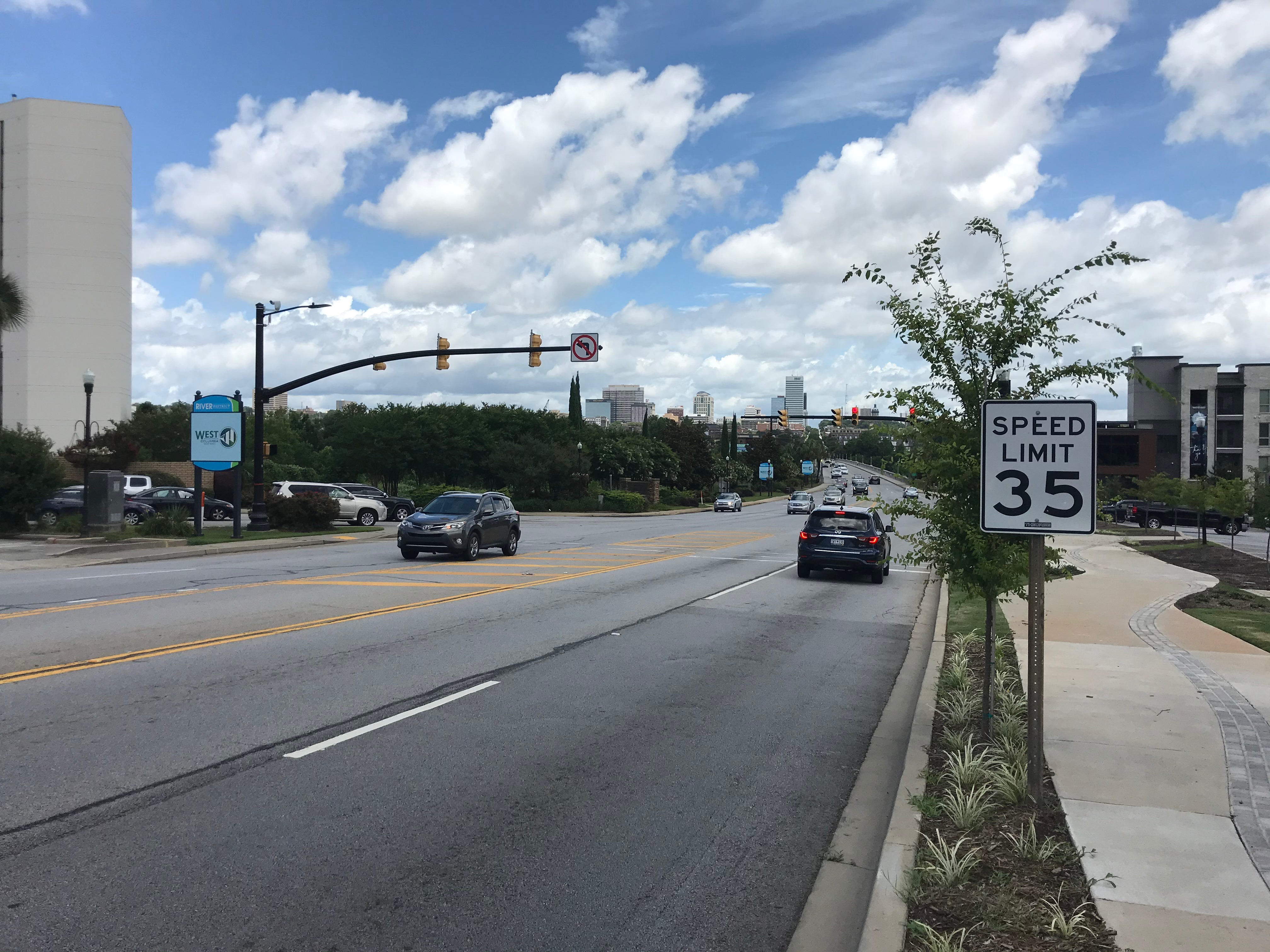 Highway 1 crossing the Congaree river over the Gervais Street Bridge